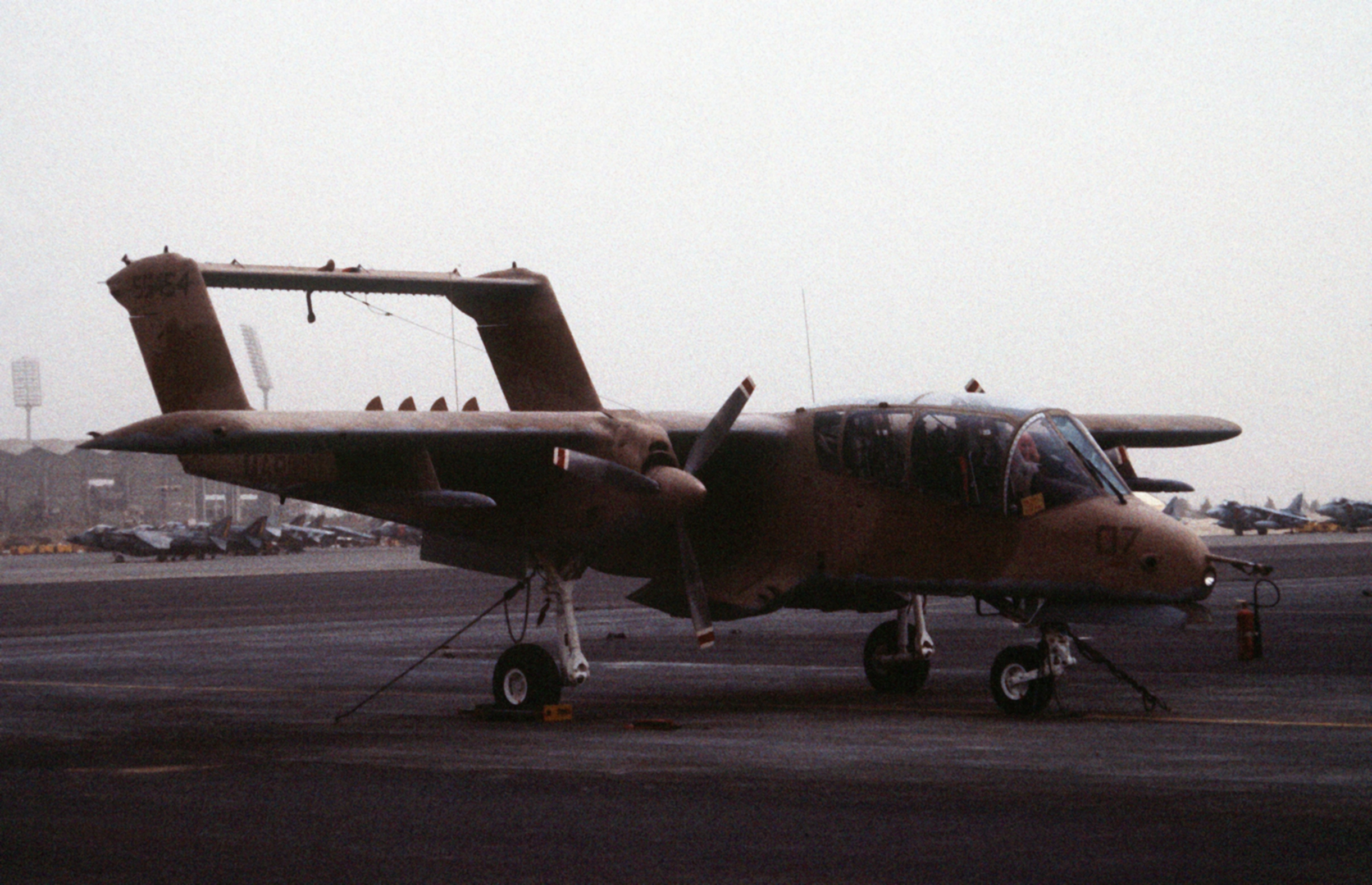 A U.S. Marine Corps North American Rockwell OV-10A Bronco (BuNo 155454) assigned to Marine Observation Squadron VM0-2 is tied down at the King Abdul Aziz Stadium parking area, Mecca (Saudi-Arabia), during operation "Desert Shield". Note the McDonnell Douglas AV-8B Harrier II aircraft in the background.